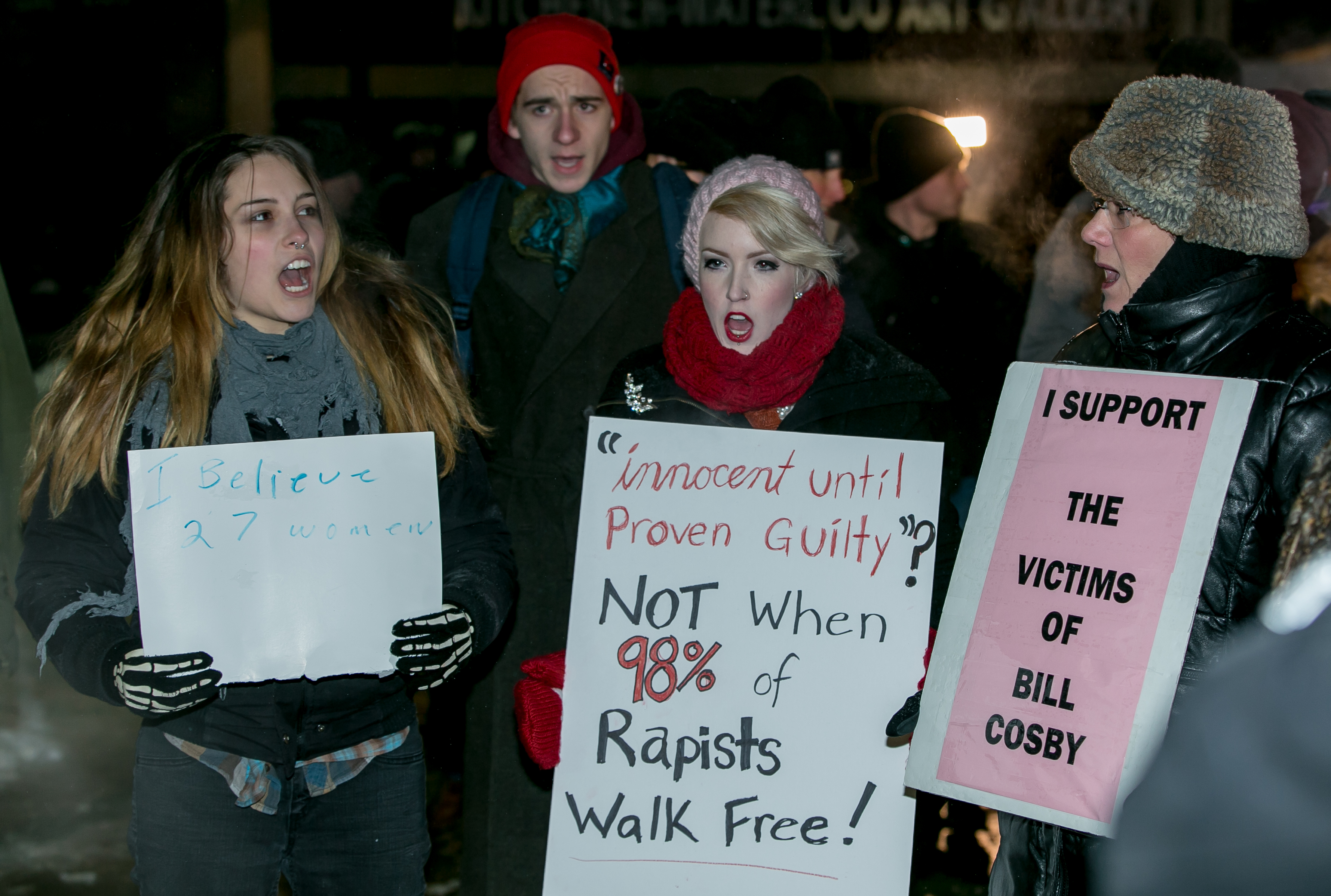 Protesters gather outside Kitchener's Centre In The Square as Bill Cosby prepares to perform.